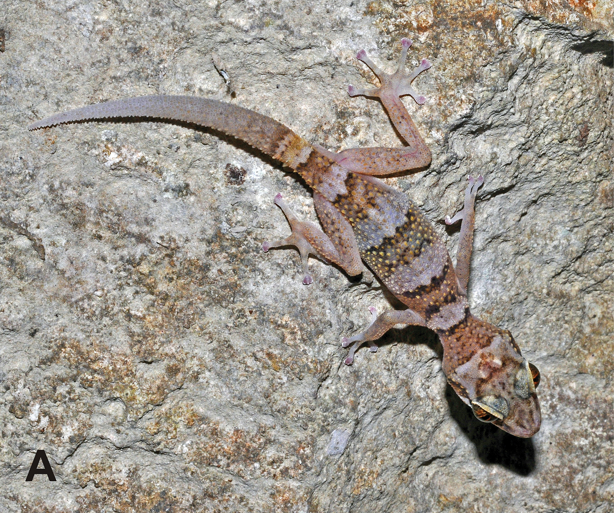 Paroedura karstophila from its type locality Tsingy de Namoroka, observed in the night of 10 September 2012 around 22:50.